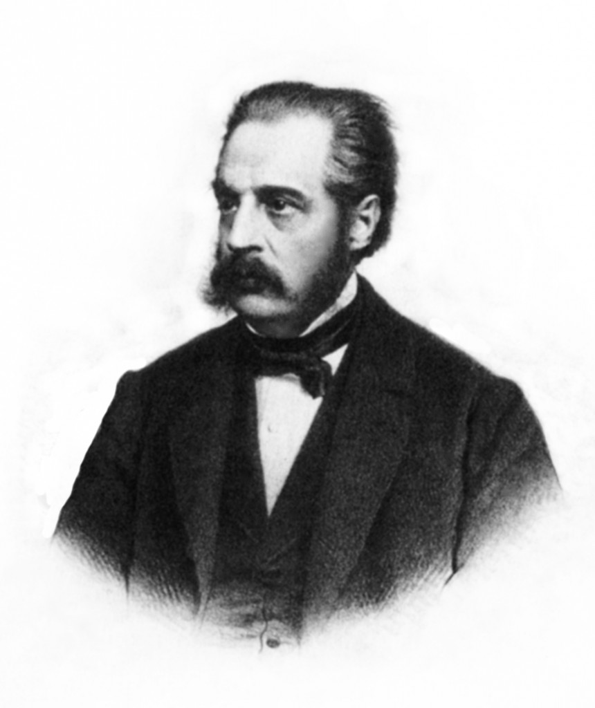 Moritz Hornes (July 14, 1815 – November 4, 1868), Austrian palaeontologist, was born in Vienna.